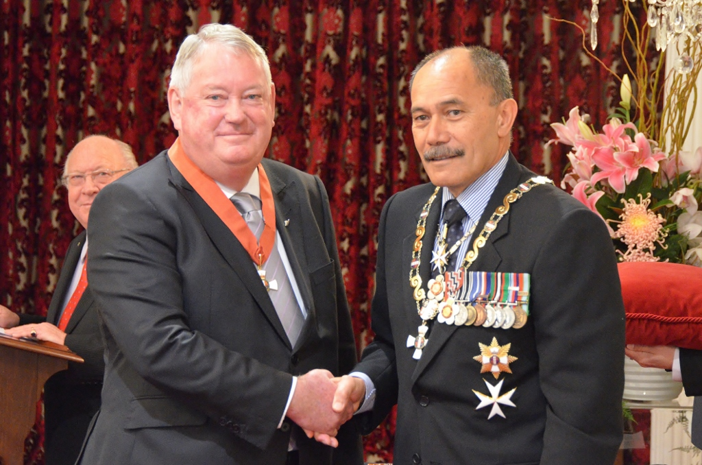 Chris Moller (left), after his investiture as CNZM, for services to business and sport, by the governor-general, Sir Jerry Mateparae, on 22 May 2015